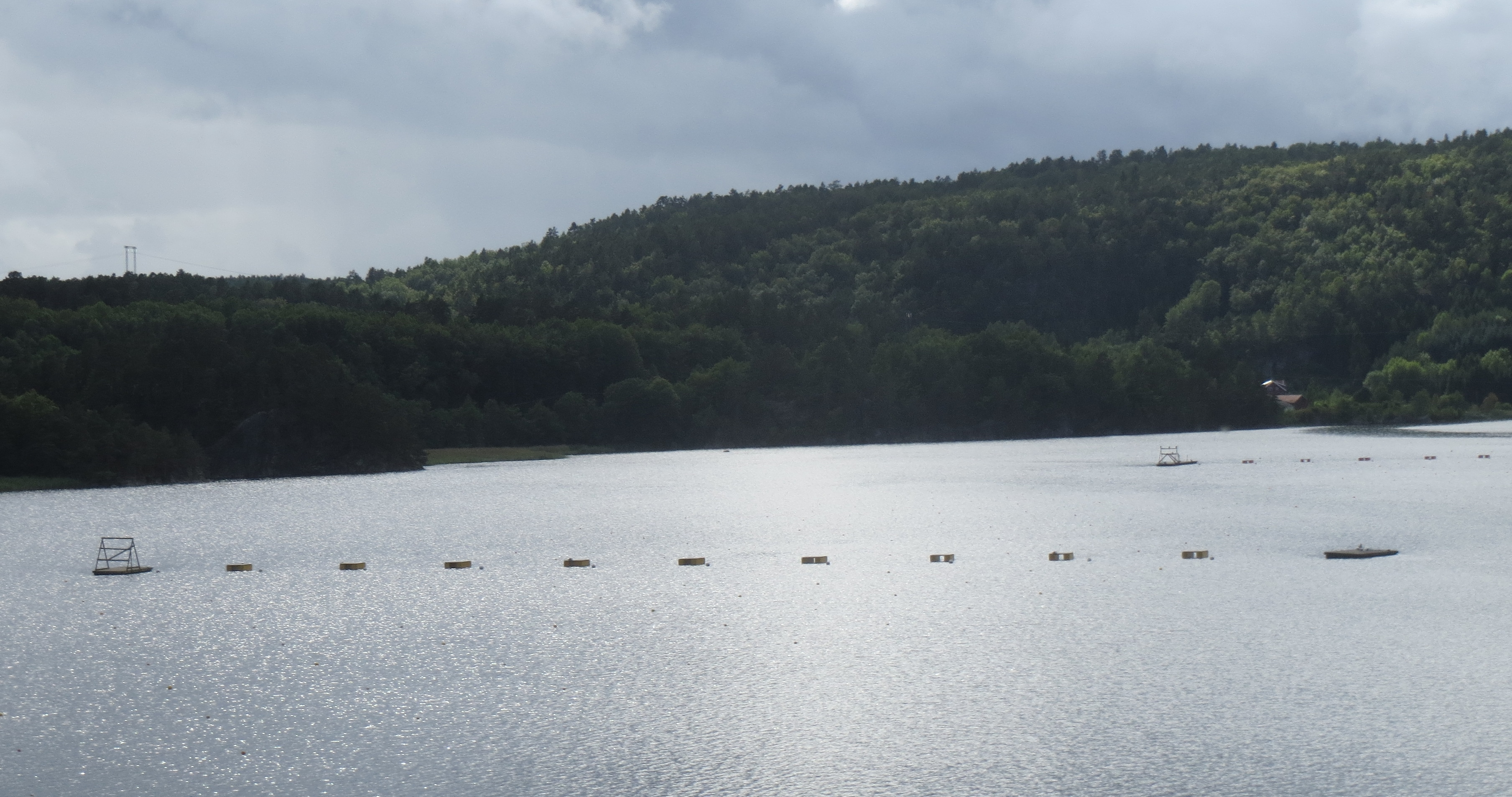 Gillsvann, a lake in Kristiansand, Norway. Lanes for kajakk